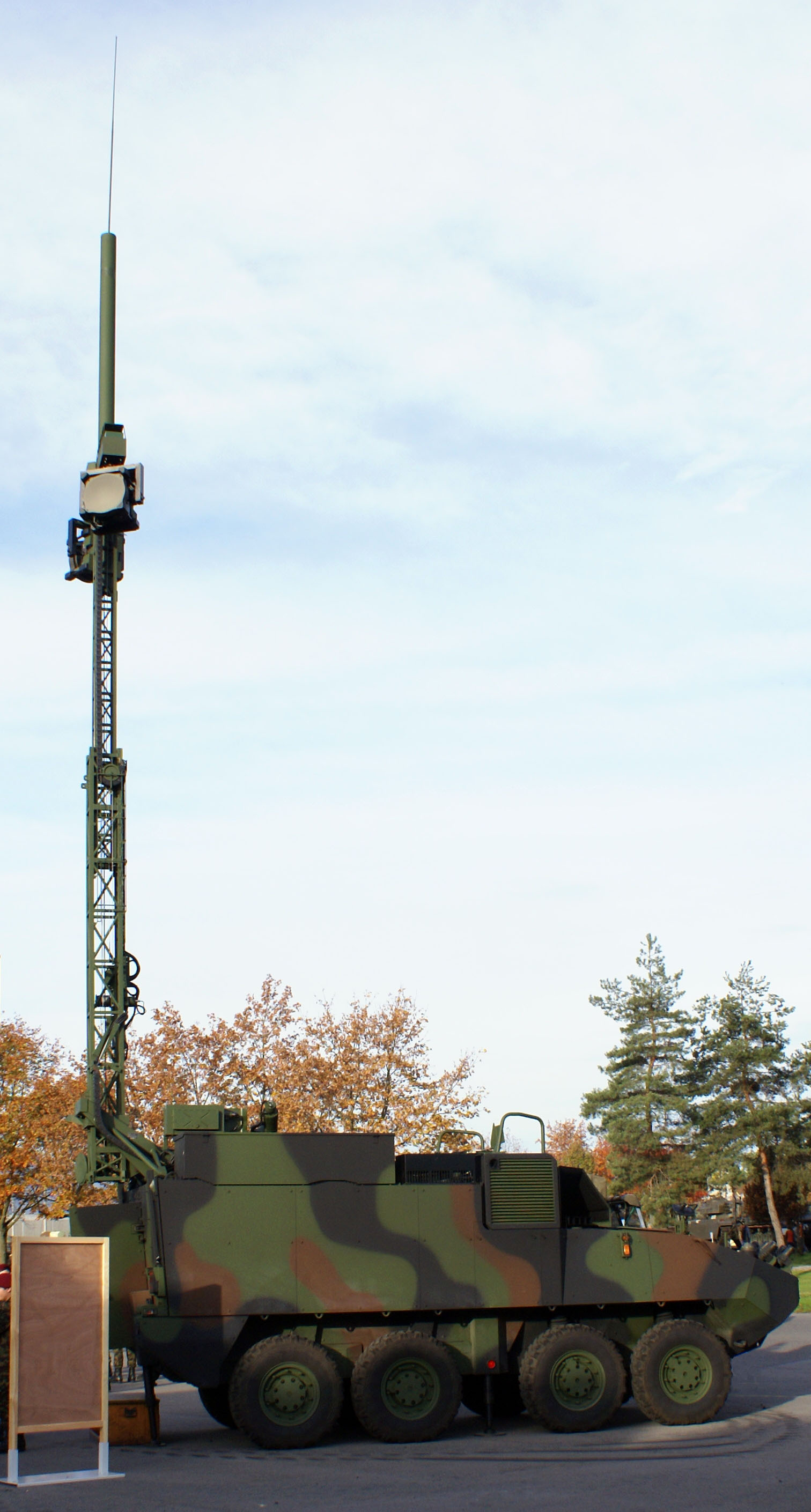 Swiss Army. Radio Access Point Tank (RAP Tank) for the Integrated Military Communications System (IMFS), based on Mowag Piranha IIIC 8x8.